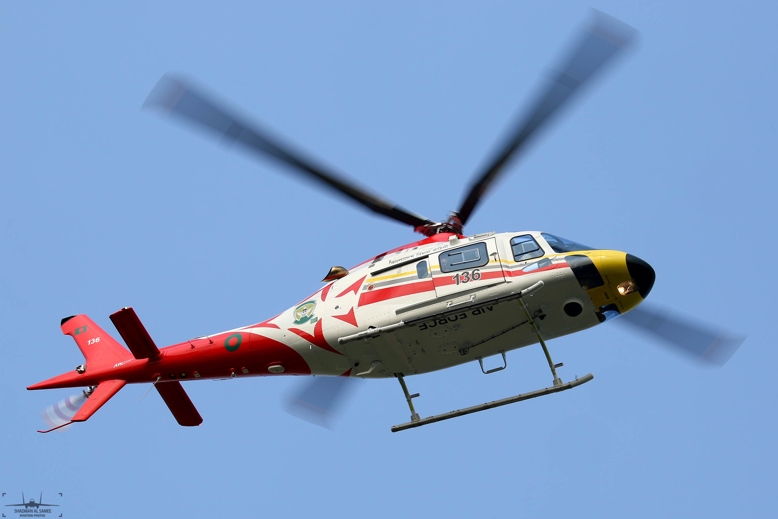 VGHS 2017: New addition for BAF!